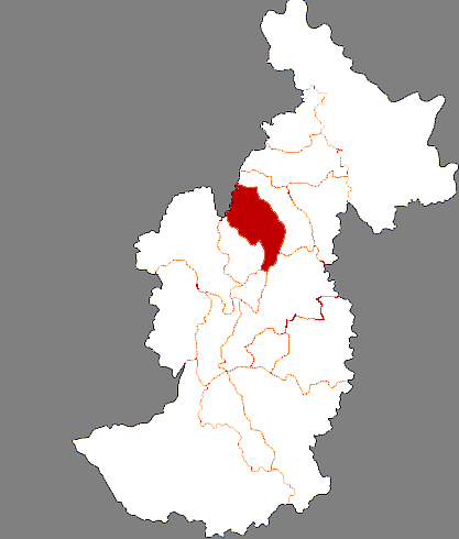 Location of Youhao district in Yichun City, Heilongjiang province China